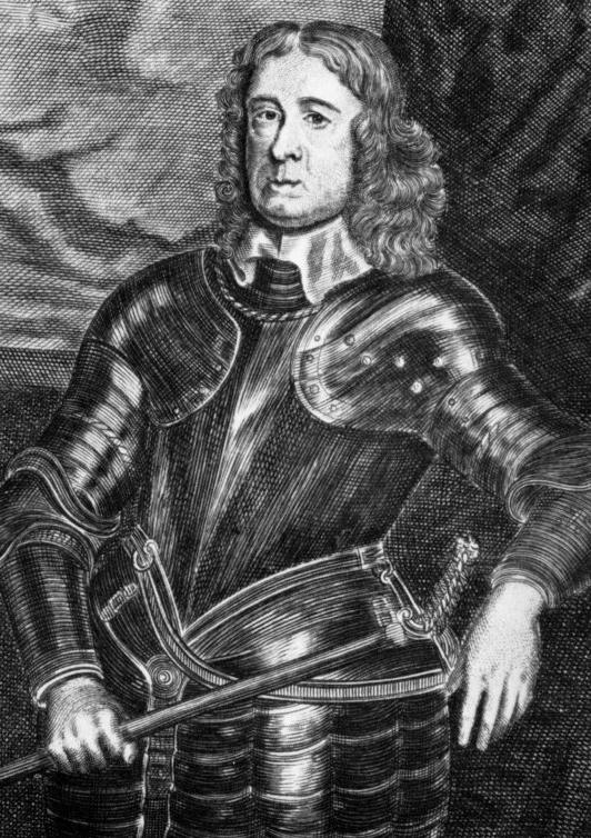 William Seymour, 2nd Duke of Somerset (1588-1660)